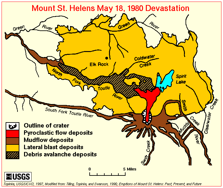 Map of the area around Mount St. Helens which were affected by the May 18, 1980 eruption. North is to the top.